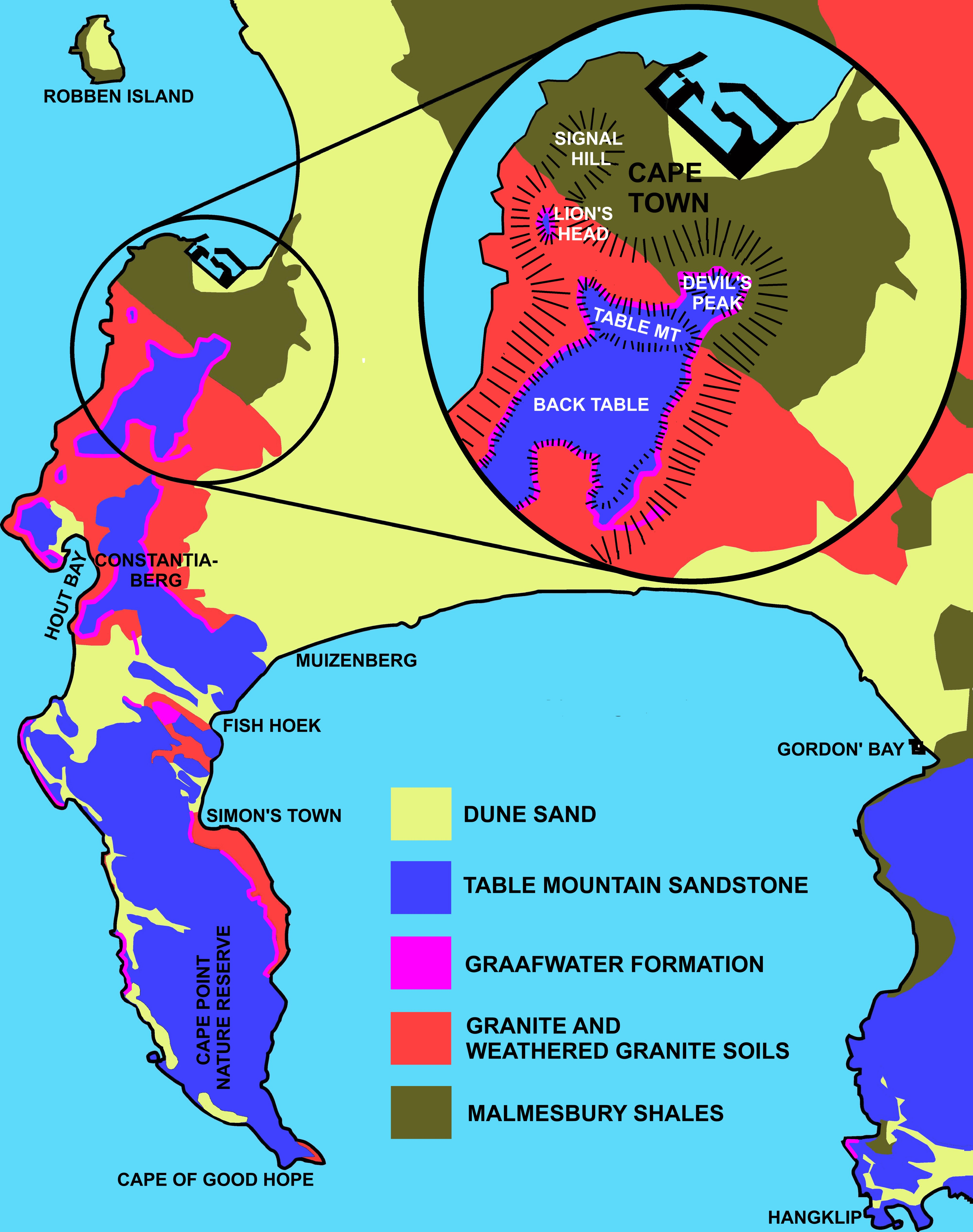 Geological map of the Cape Peninsula, showing the main surface rock formation